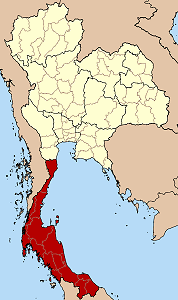 Map of Thailand highlighting the extent of the Roman Catholic diocese of Surat Thani.